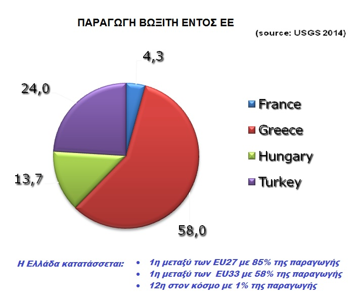 European Bauxite Production